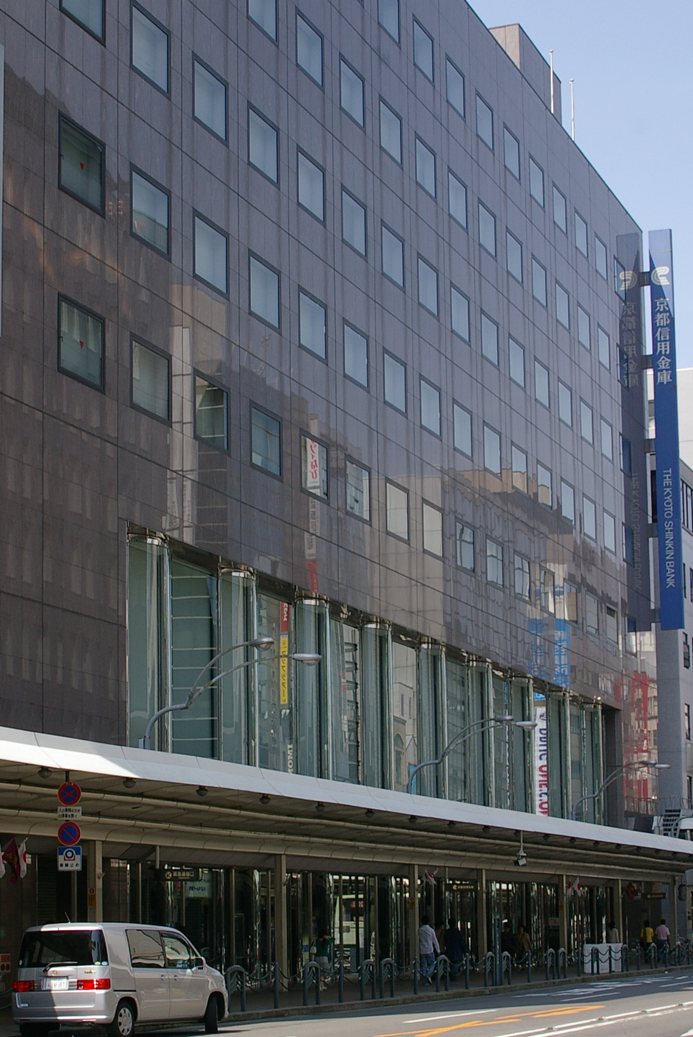 Photograph of the Kyoto Shinkin Bank's Central Branch (headquarters) in Shimogyo-ku, Kyoto, Kyoto Prefecture, Japan.